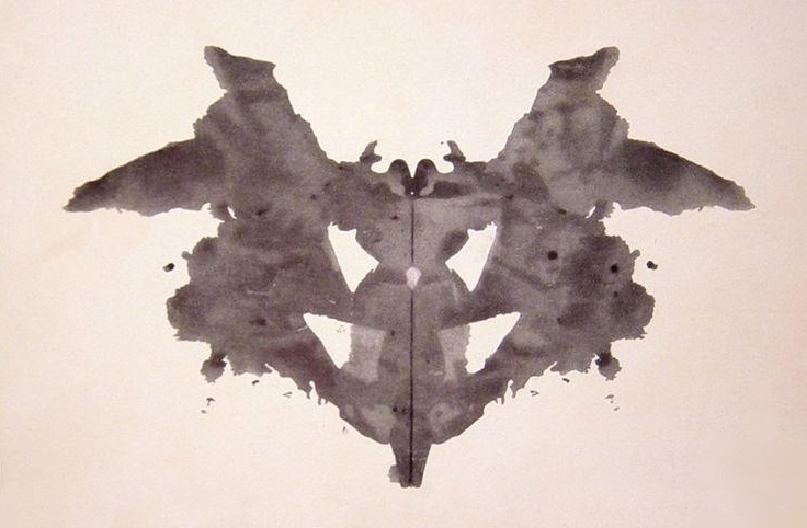 the first of the blots of the Rorschach inkblot test